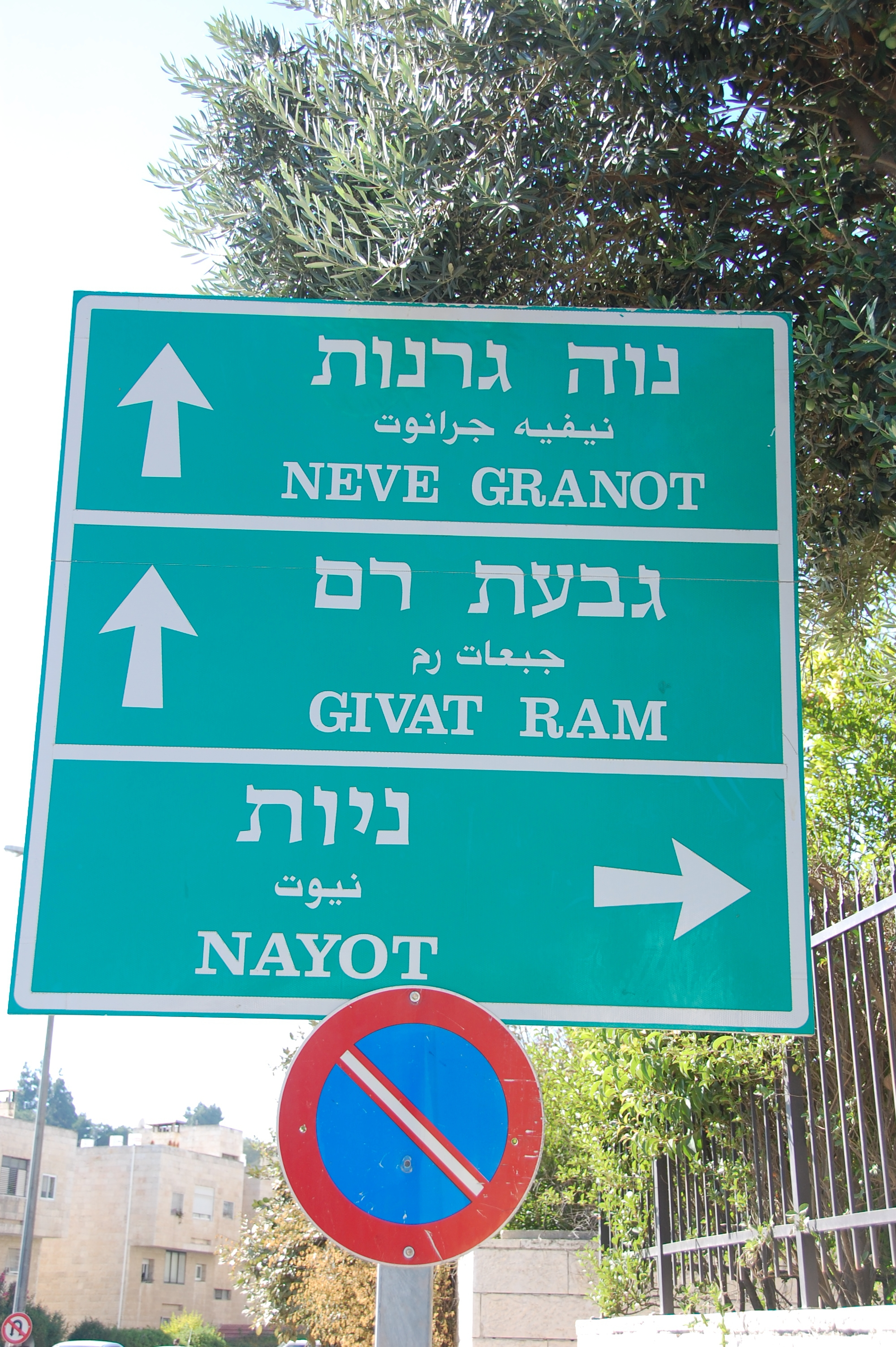 Multilingual Israeli traffic sign in Nayot, Jerusalem, Israel, on which the Arabic text is much smaller in size than the Hebrew and English text.